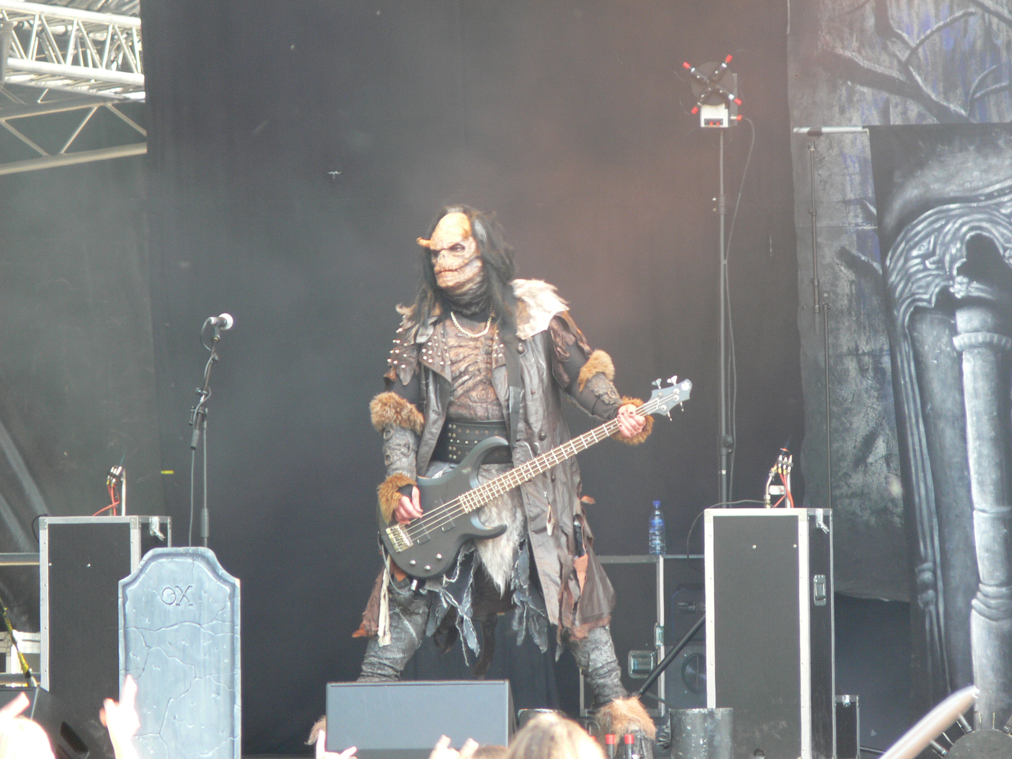 Ox, the bassist of the Finnish hard rock band Lordi, on stage in Heinola Finland.